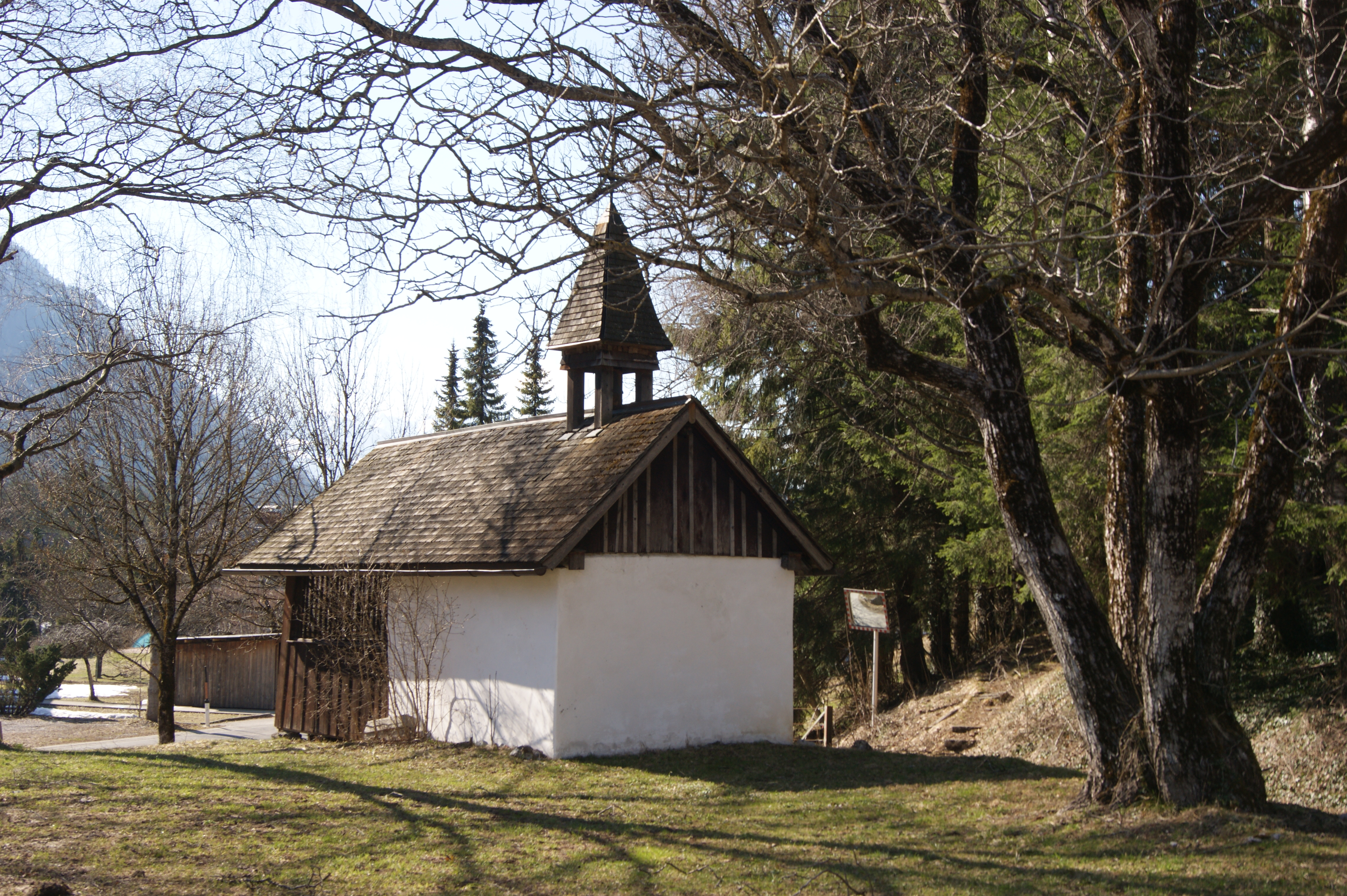 Chapel St. Magnus in Innerbraz, Kraftwerkssiedlung, Vorarlberg, Austria. Built in 1634.